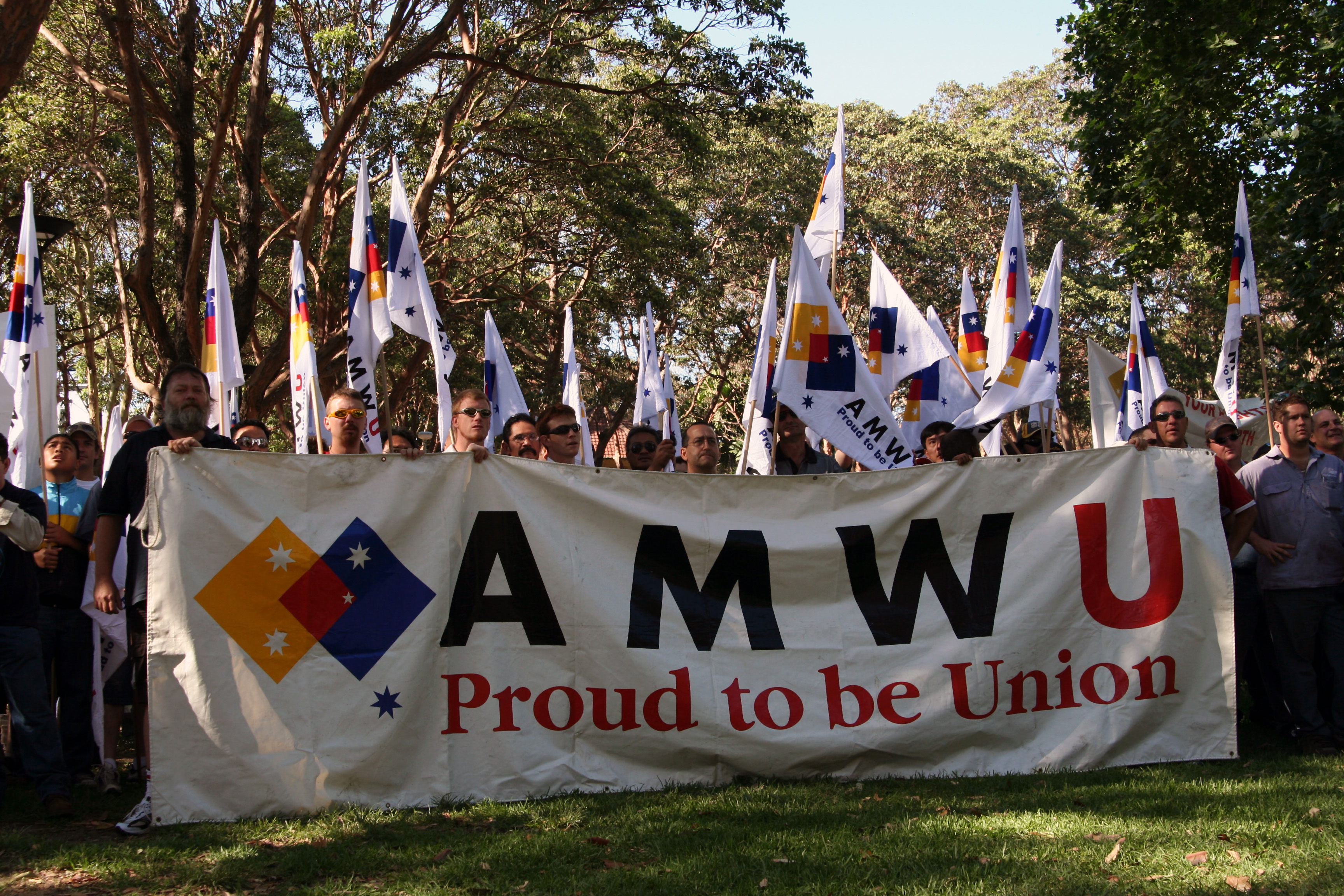 This photo is relevant to the Australia NSW Sydney IRProtest.